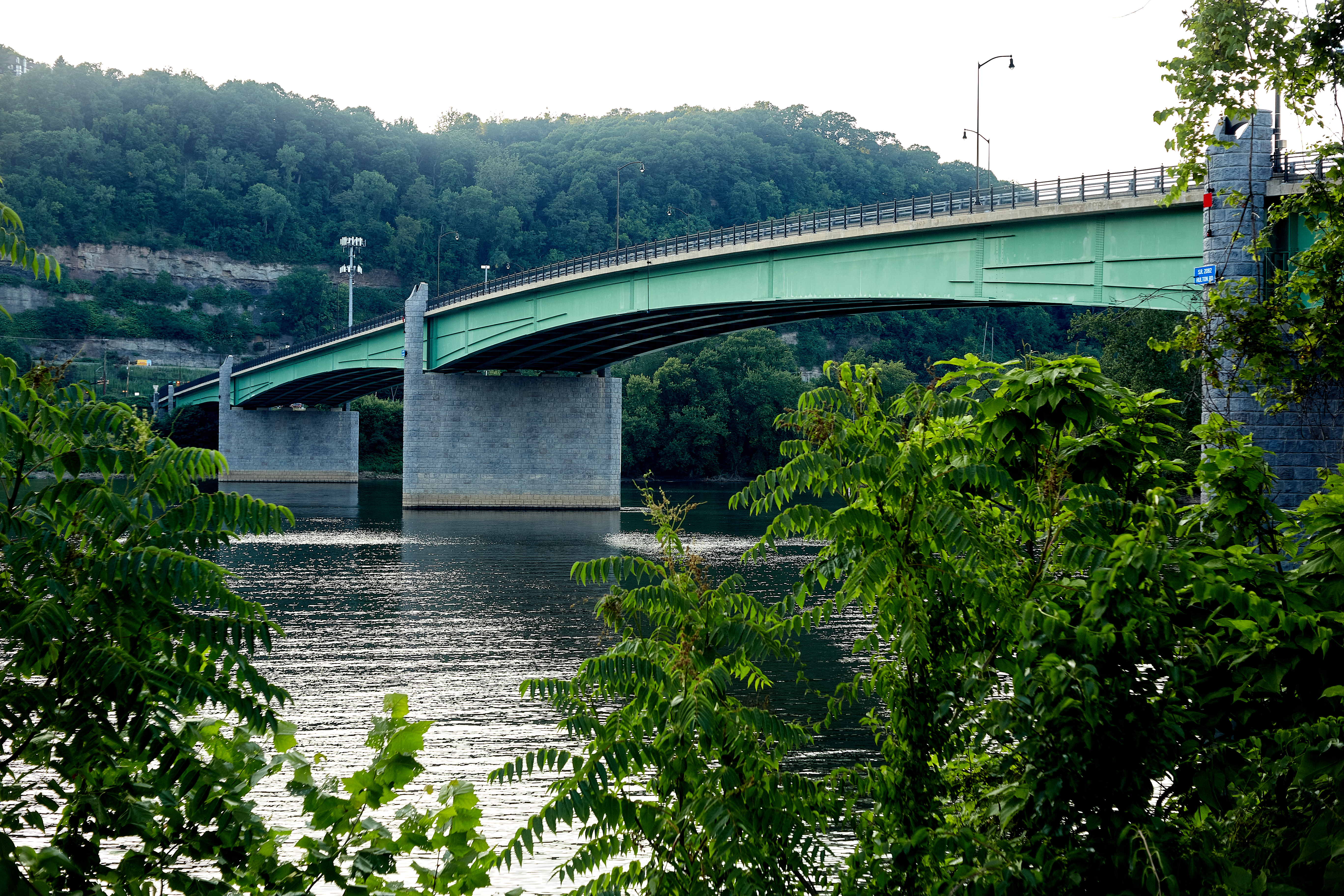 Hulton Bridge over the Allegheny River, shot on a Canon 6D with a 50mm Industar 50-2 lens at f/8, ISO 800, 1/125 s